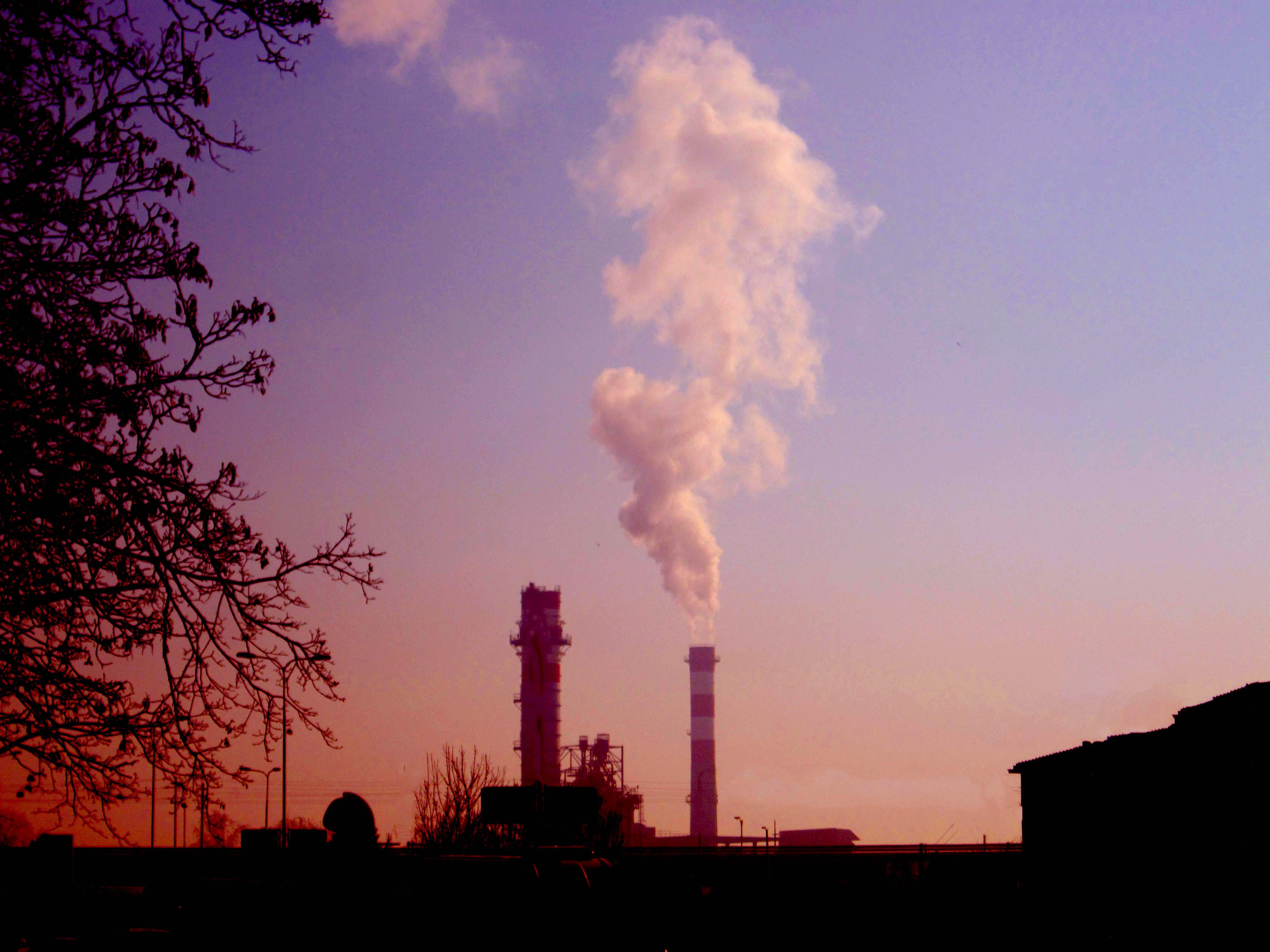 Urban pollution of air extraction slot from various exhaust gases and steam